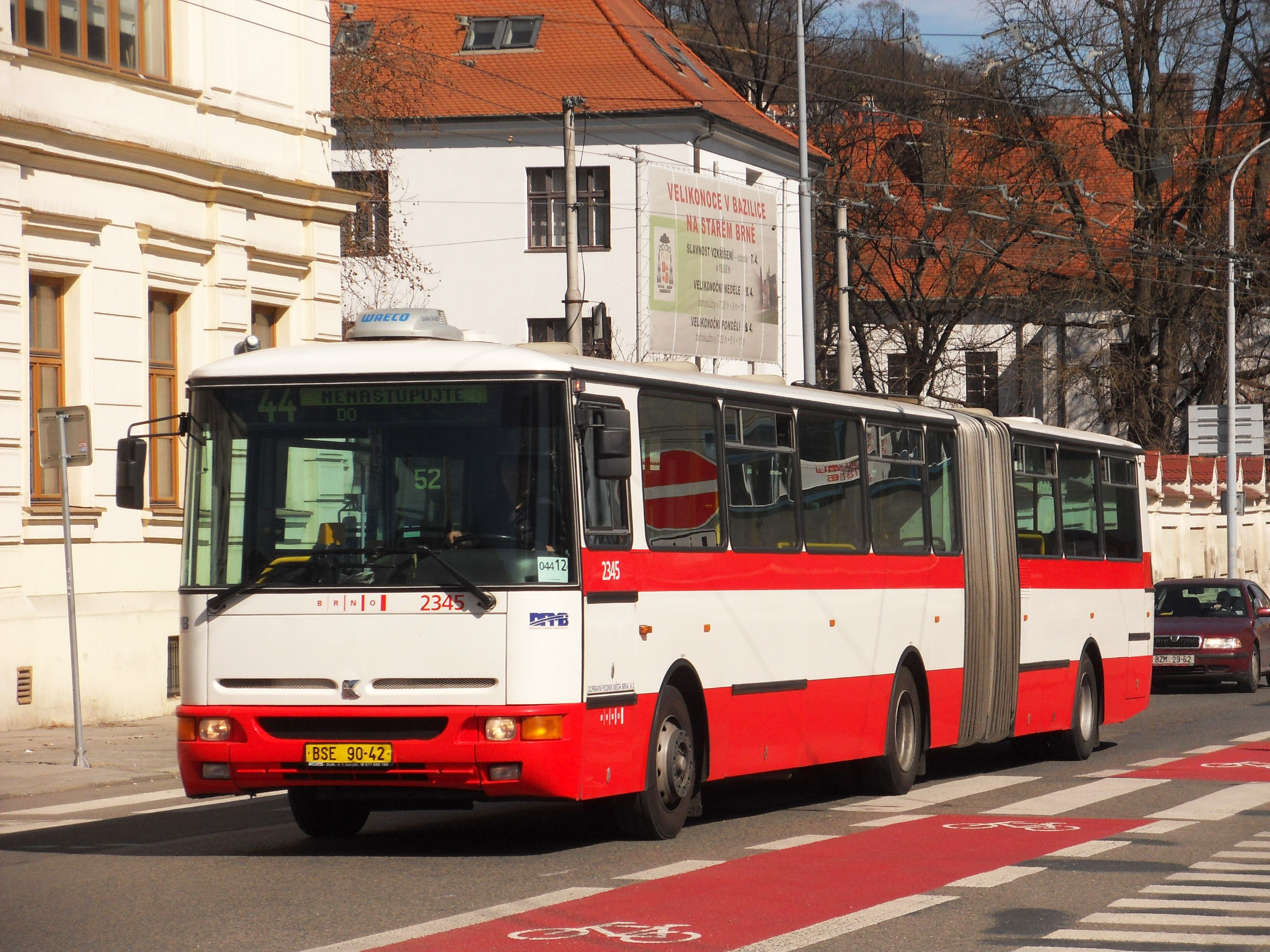 Karosa B 941 E.1962 bus No. 2345 of Dopravní podnik města Brna, Brno, Czech Republic - Google Maps - Google Earth